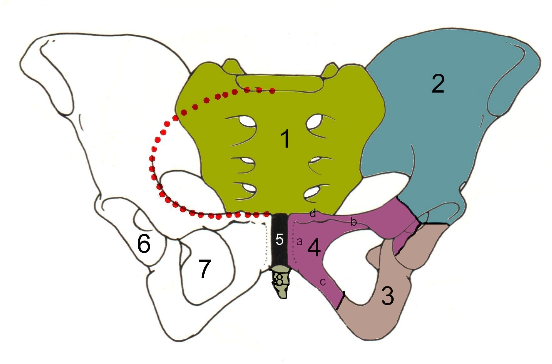 The human pelvis. 1. Sacrum, 2. Ilium, 3. Ischium, 4. Pubis: 4a. Body of pubic bone 4b. Superior pubic ramus 4c. Inferior pubic ramus 4d. Pubic tubercle 5. Pubic symphisis, 6. Acetabulum, 7. Obturator foramen, 8. Coccyx, Red dotted line = Linea terminalis